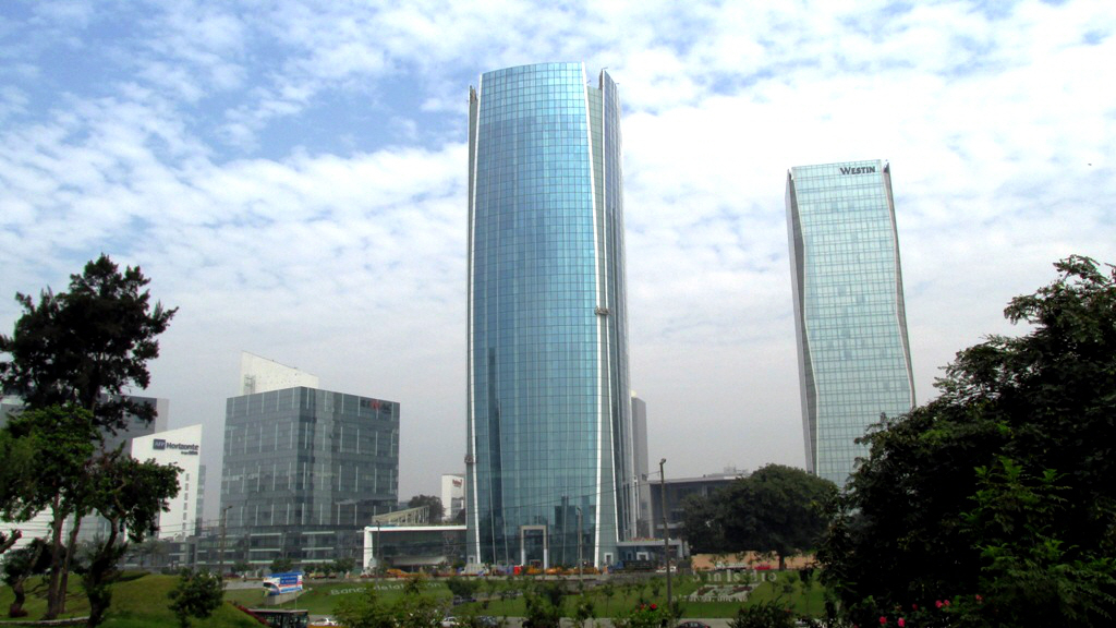 Financial center of Lima, Peru.